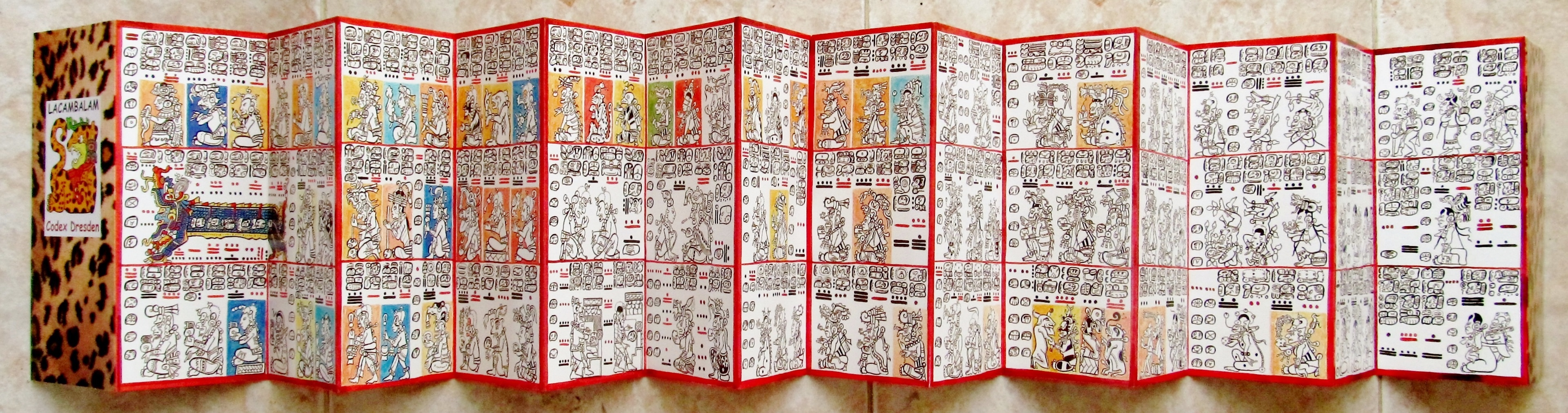 Dresden Maya Codex drawn by Lacambalam.